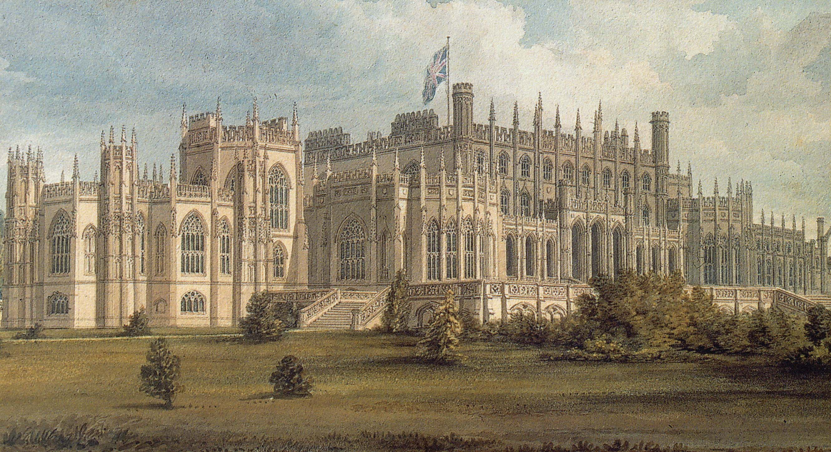 Painting of Eaton Hall, Cheshire, England, as designed by William Pordon in the late 17th century